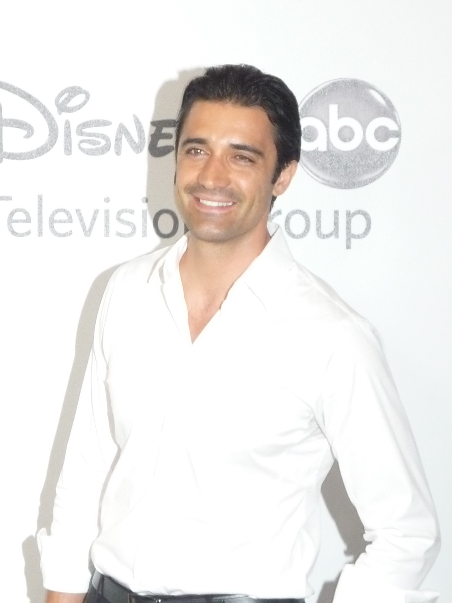 TCA 2010